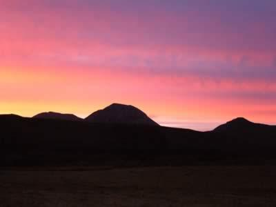 Sunset over the Paps of Jura, Scotland